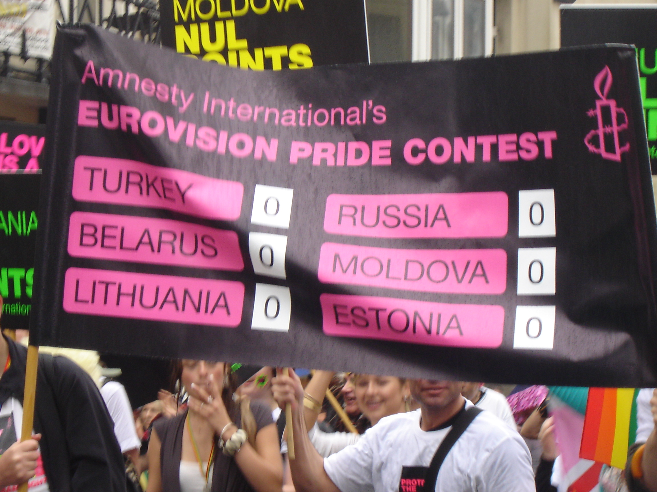 Amnesty International gay rights board of shame at Gay Pride parade in Brighton 2008